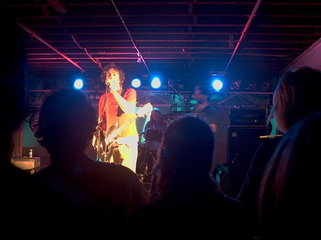 Machine Translations performing at the Cockatoo Island festival, 26 March 2005